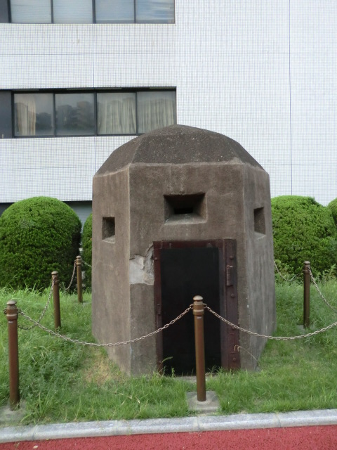 Roomette where air raid is prevented